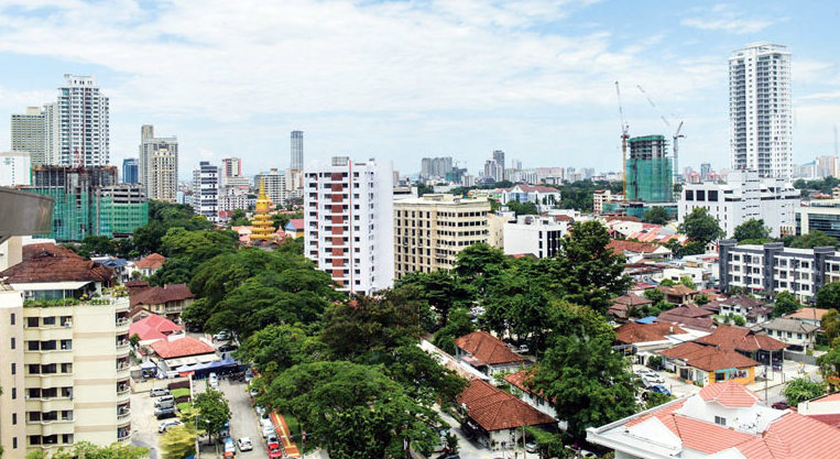 Kelawai Road in George Town, Penang